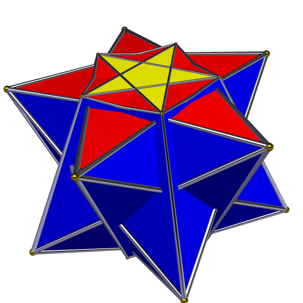 The copyright holder of this file, Robert Webb, allows anyone to use it for any purpose, provided that the copyright holder is properly attributed. Redistribution, derivative work, commercial use, and all other use is permitted. Attribution: Attribution must be given to Robert Webb's Stella software as the creator of this image along with a link to the website: A complimentary copy of any book or poster using images from the Software would also be appreciated where feasible. This work is free and may be used by anyone for any purpose. If you wish to use this content, you do not need to request permission as long as you follow any licensing requirements mentioned on this page.